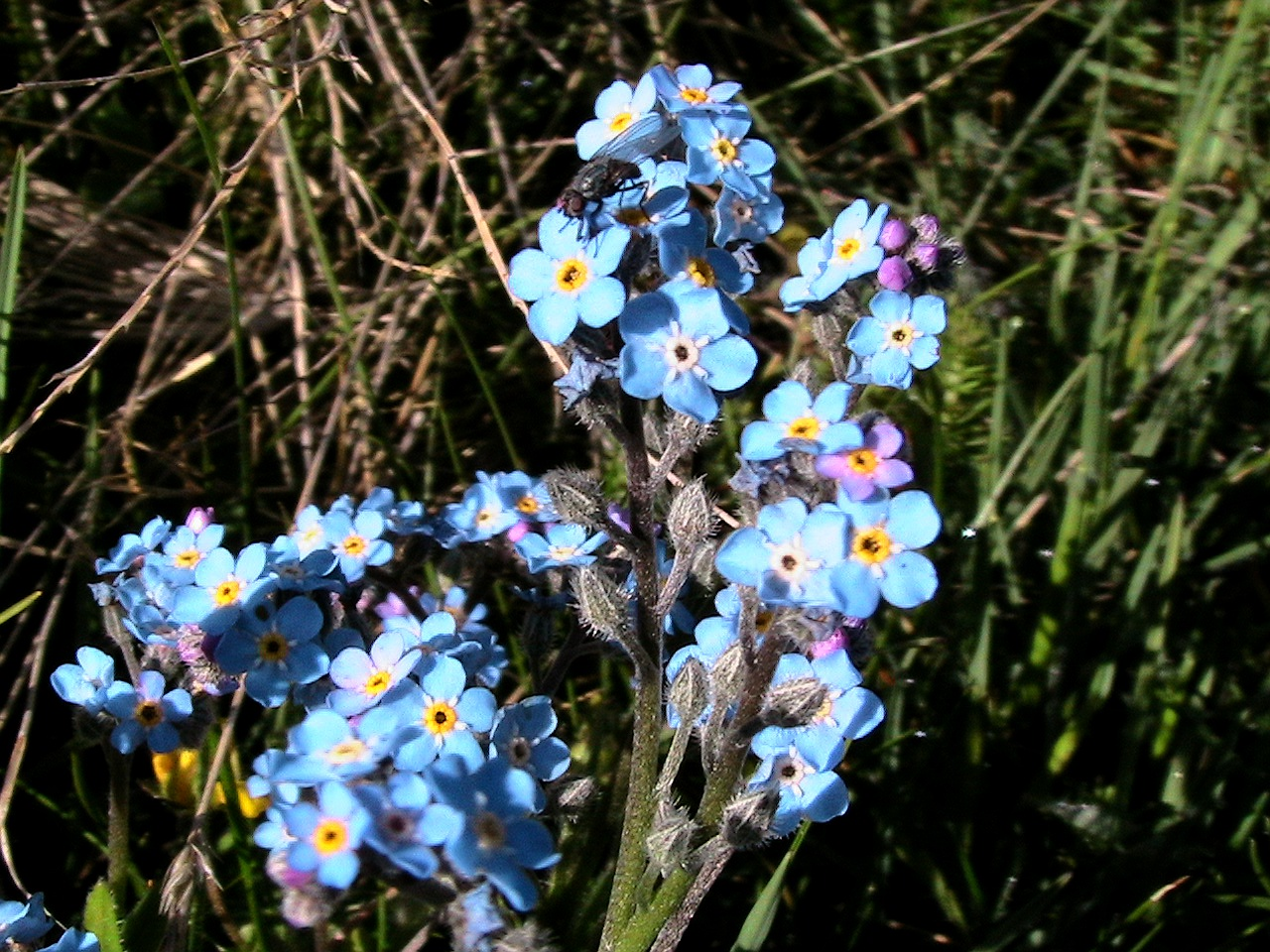 Myosotis alpestris. In Cabdella (Pallars Jussà - Catalunya. To 2.135 m altitude